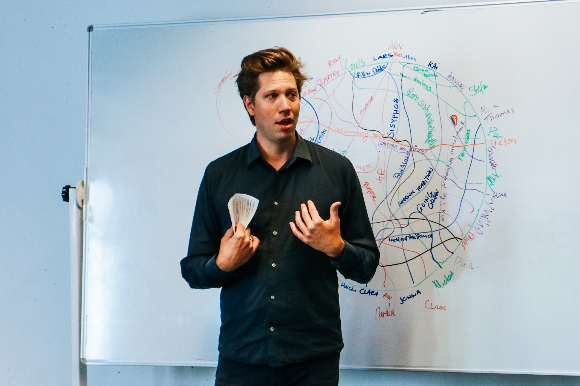 Image of Florian Hoffmann, the founder of The DO School, hosting a workshop on purposeful retail in June 2019